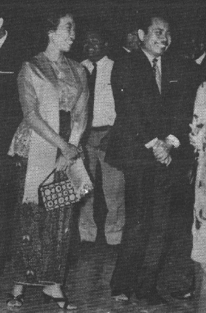 The introductory night between the MPs and the Speakers and Vice Speakers of the People's Representative Council, with the delegations from foreign countries.